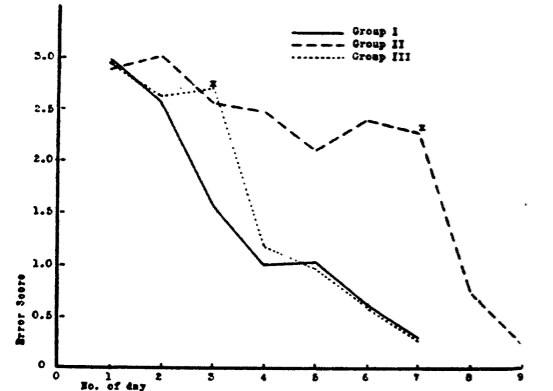 Graph of number of errors rats made in certain period of time used for Tolman's experiments of cognitive maps in rats and men